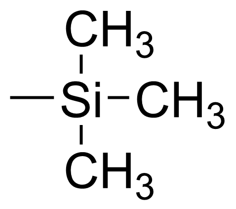 Structure of Trimethylsilyl Functional Group